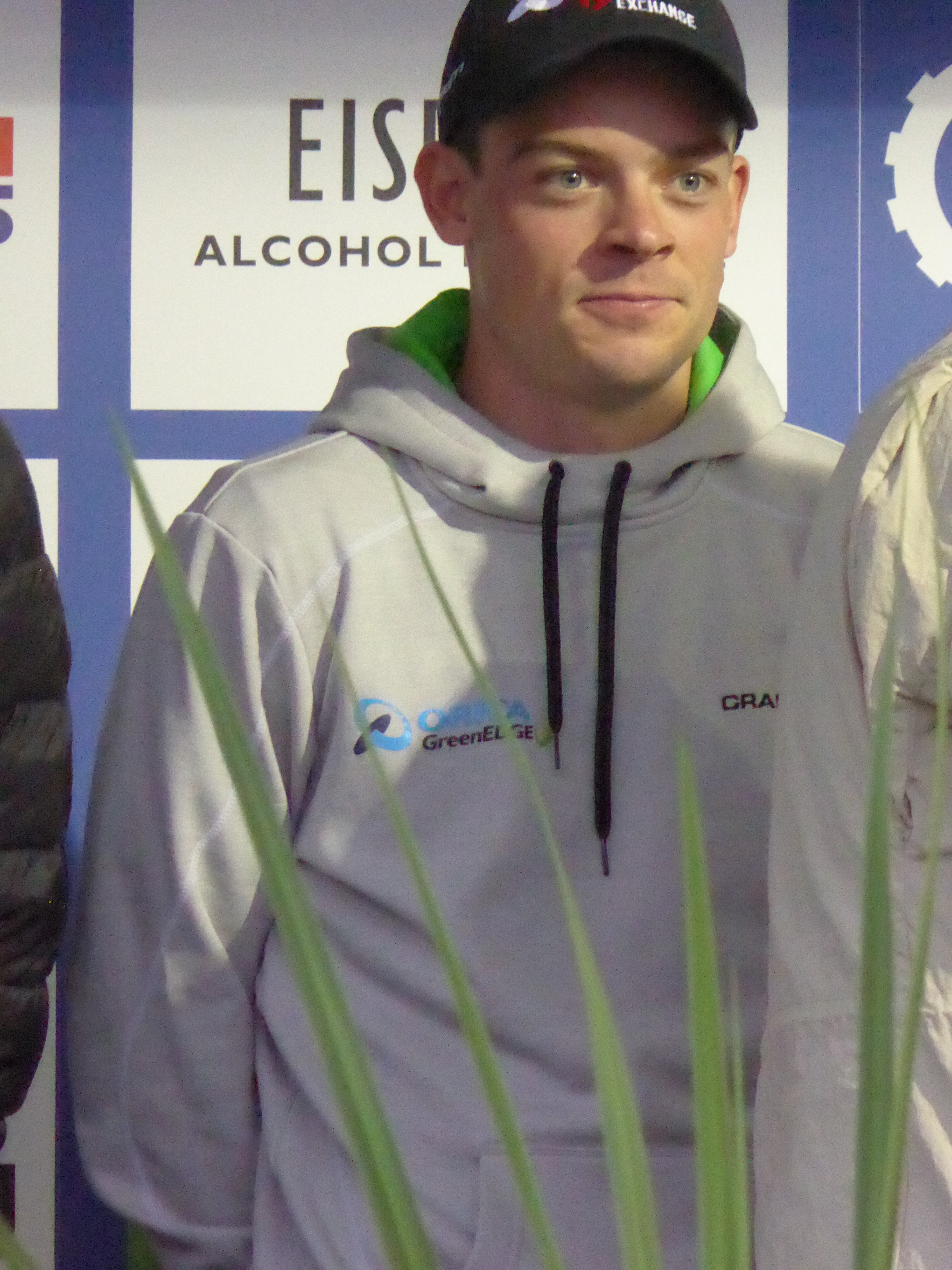 Alex Edmondson (Orica-BikeExchange), pictured at the 2016 Tour of Britain team presentation in Glasgow on 3 September 2016.